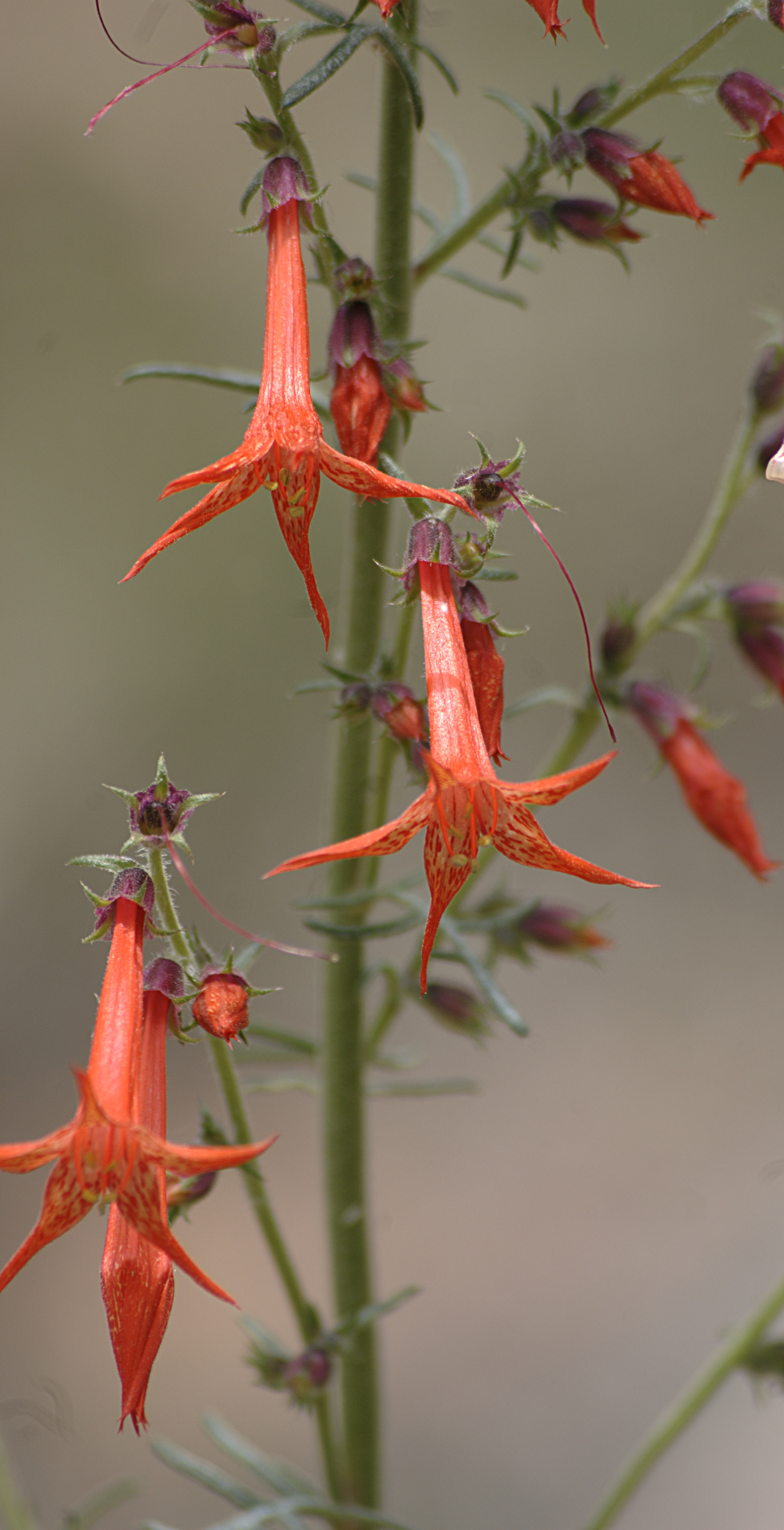 Flowers of Ipomopsis aggregata (scarlet gilia, skyrocket), Aspen Vista Trail, Santa Fe National Forest. Not sure of the subspecies, maybe formosissima. This is a retouched picture, which means that it has been digitally altered from its original version. Modifications: Lightened, cropped, unsharp masked, dust specks cloned out. Modifications made by JerryFriedman.